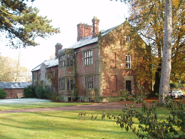 Mobberley Old Hall An early 1700c Grade II* Jacobean Manor House Recently sold by the University of Manchester for £2.75m!